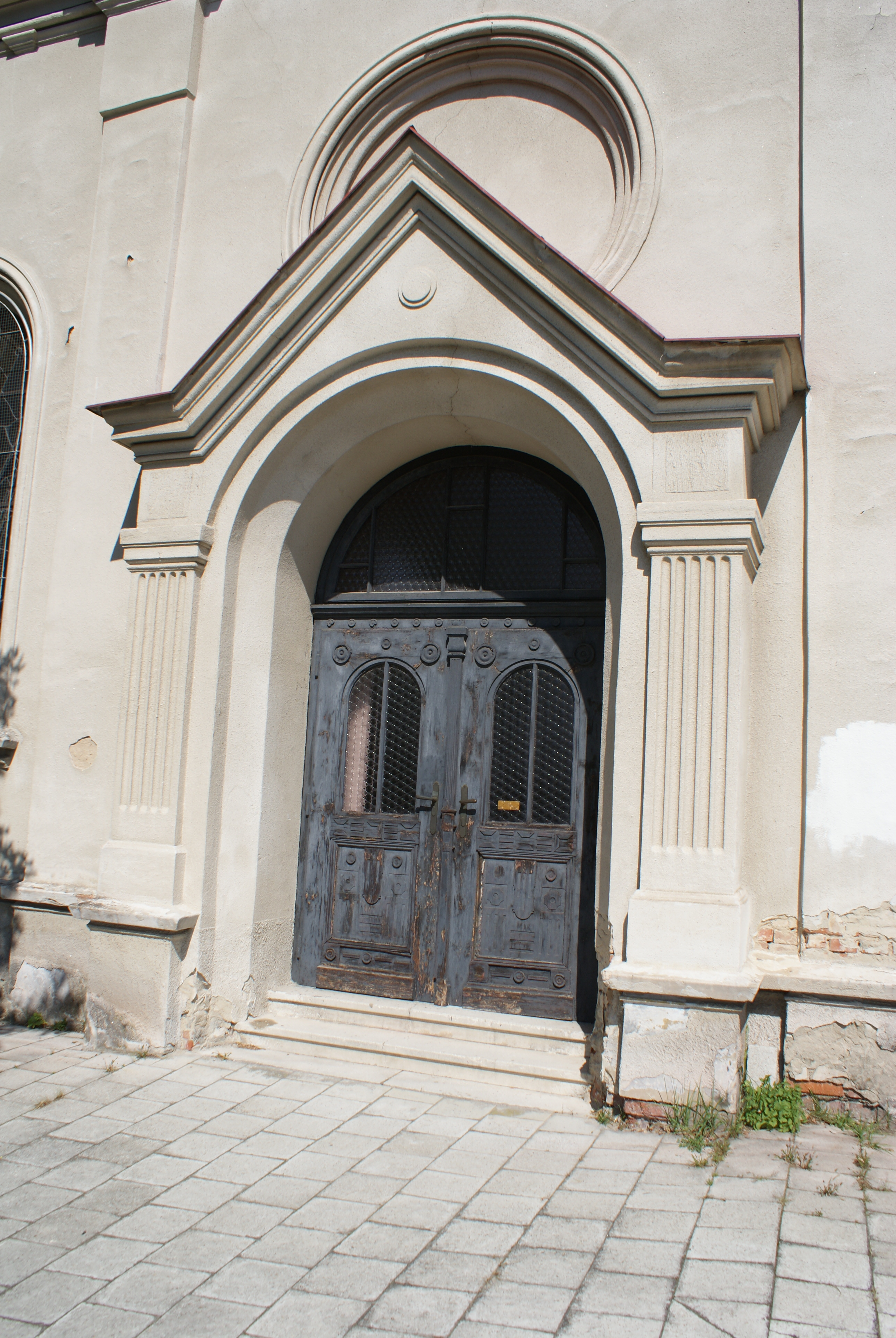 Jewish cemetery in Bzenec, Hodonín district, Czech Republic.